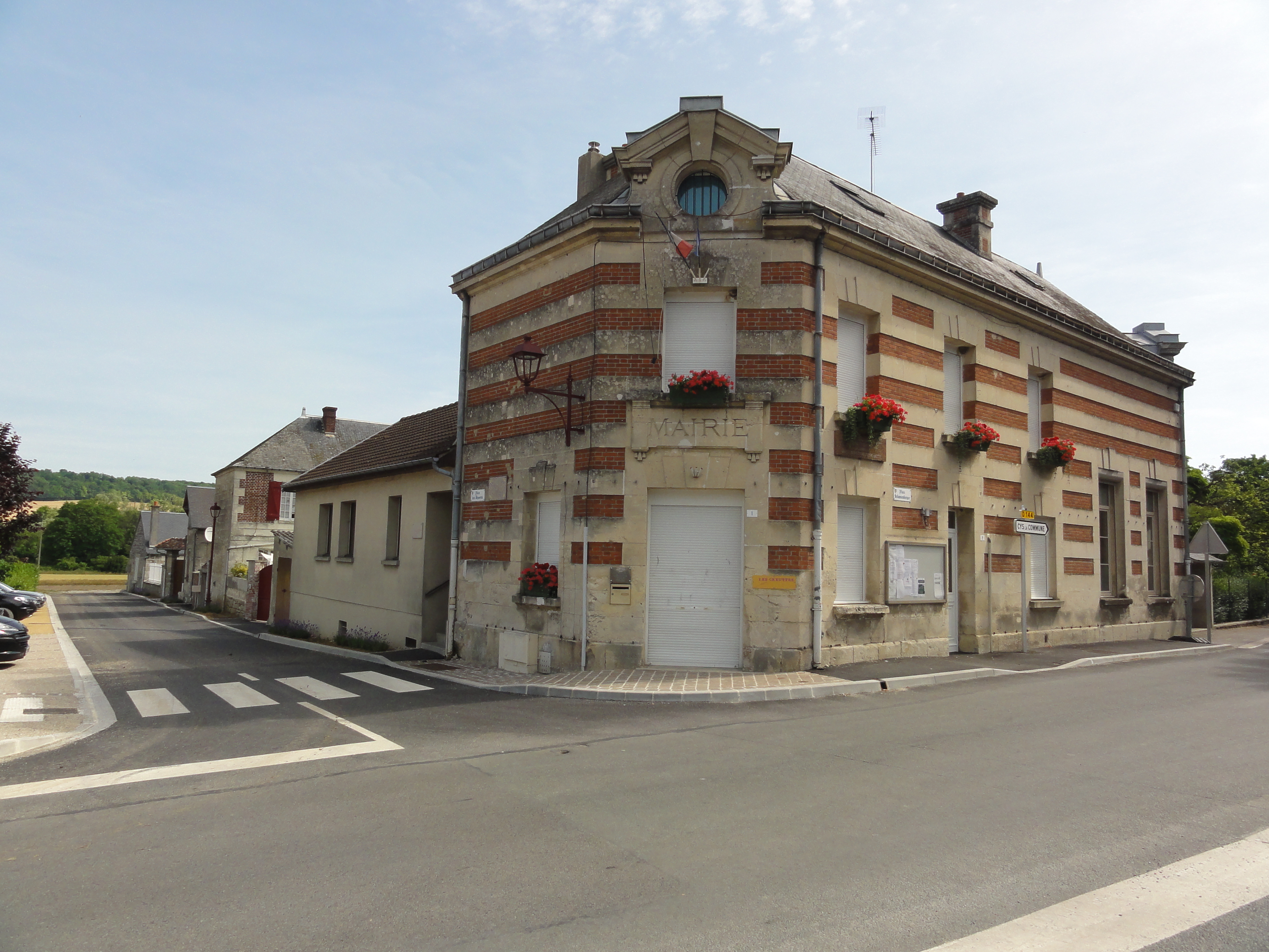 Presles-et-Boves (Aisne) mairie